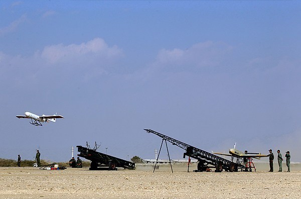 A Mohajer-2N (left, in flight) along with a Mohajer-4 (right, on launcher) at Iran's "Muhammad Rasullullah" wargames exercise in Jask port, southern Iran. Both UAVs were operated by the Iranian Army Ground Force's Vali-e Asr Drone Group. See here for confirmation of the drones' models.